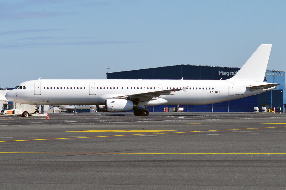 Avion Express, LY-NVQ, Airbus A321-231